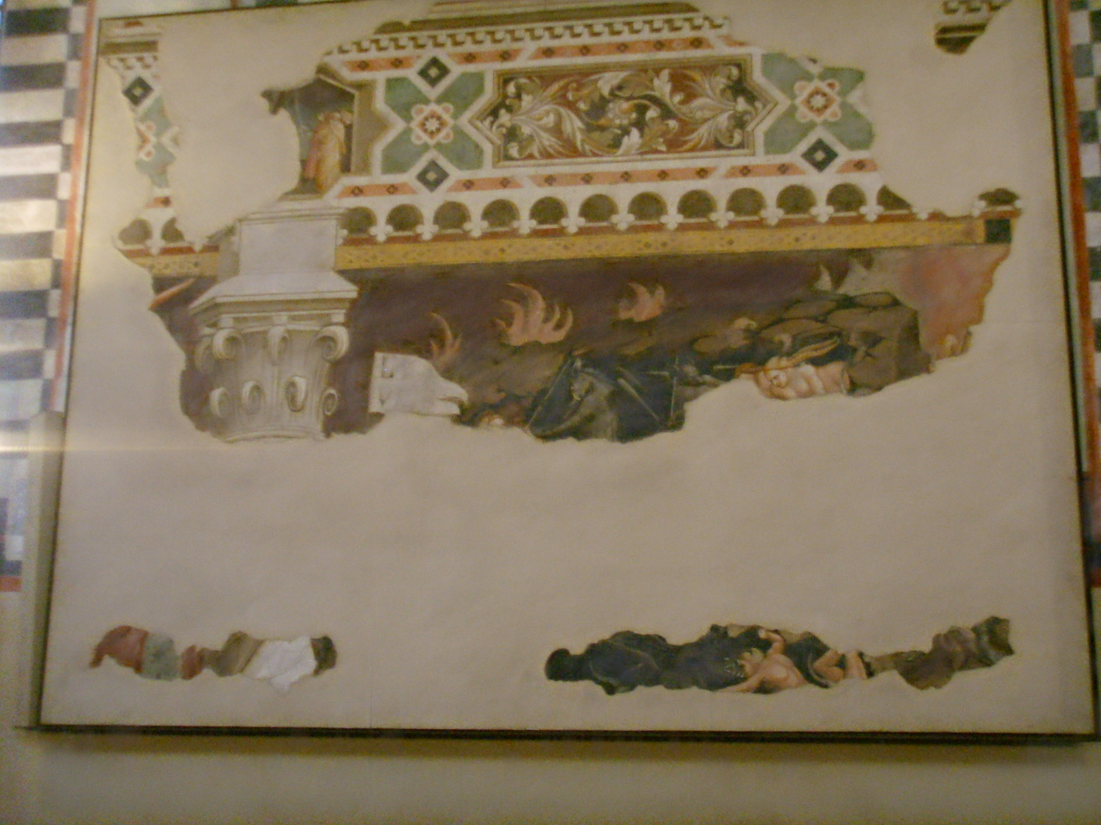 Santa Croce museum, refectory, Orcagna fresco, in Florence, Italy